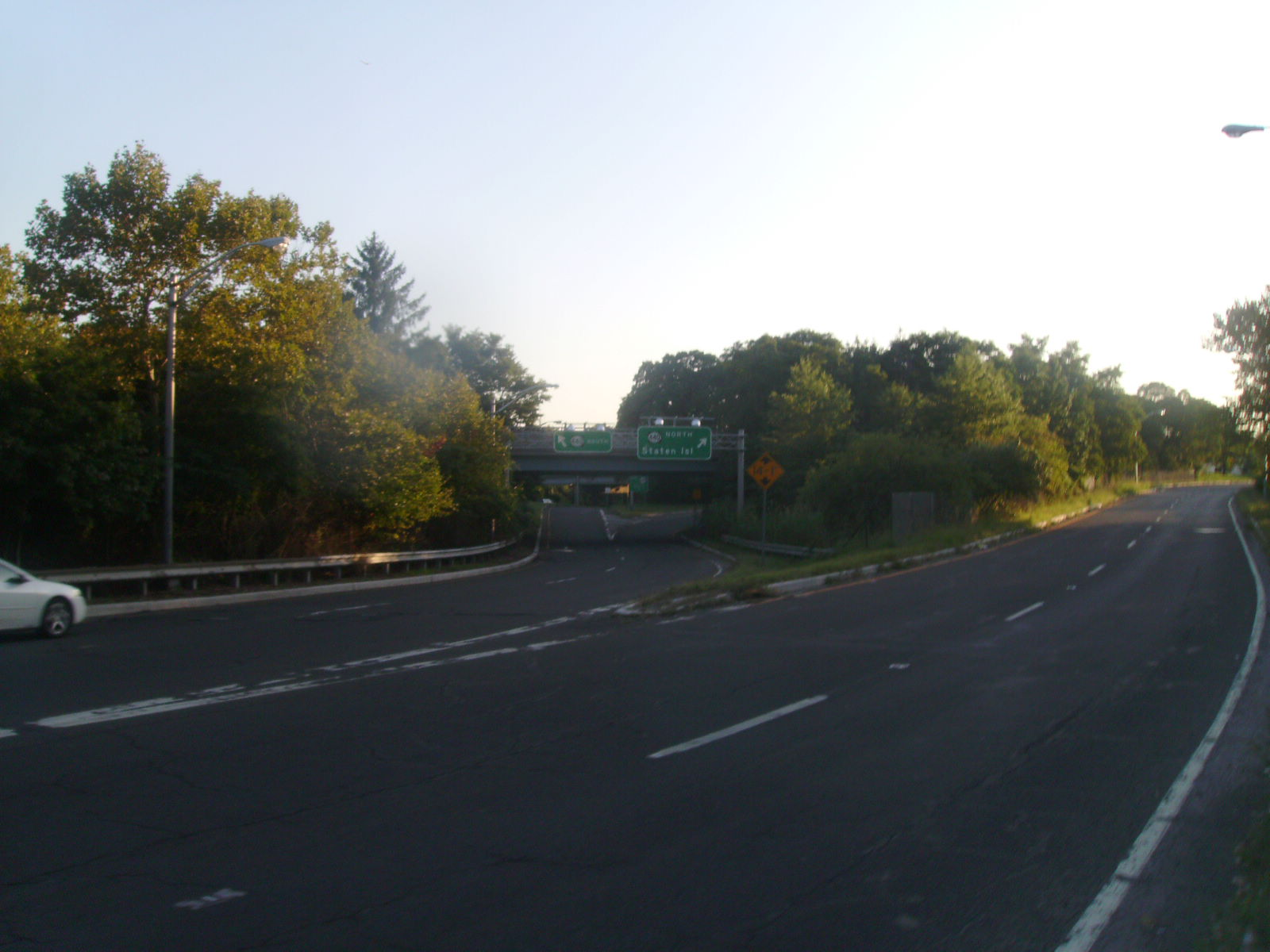 New Jersey Route 184 heading westbound approaching the interchange with Route 440 in Perth Amboy.